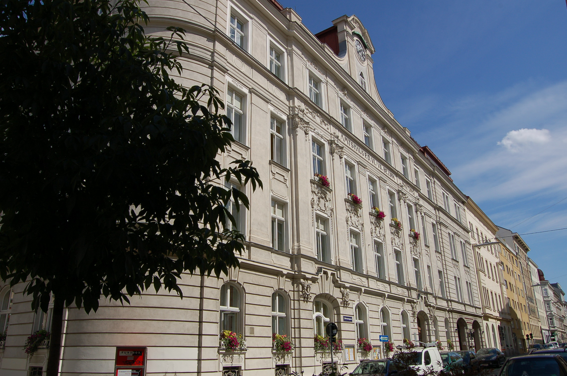 Amtshaus (municipal administrative building) for the 6th and 7th district of Vienna, situated at Hermanngasse in the 7th district